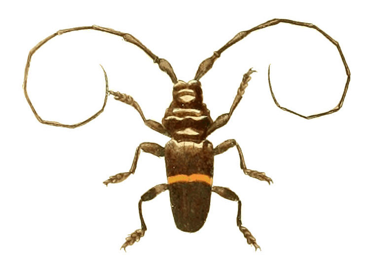 Extract from Plate XXXIX. TRACHYDERES SUCCINCTUS